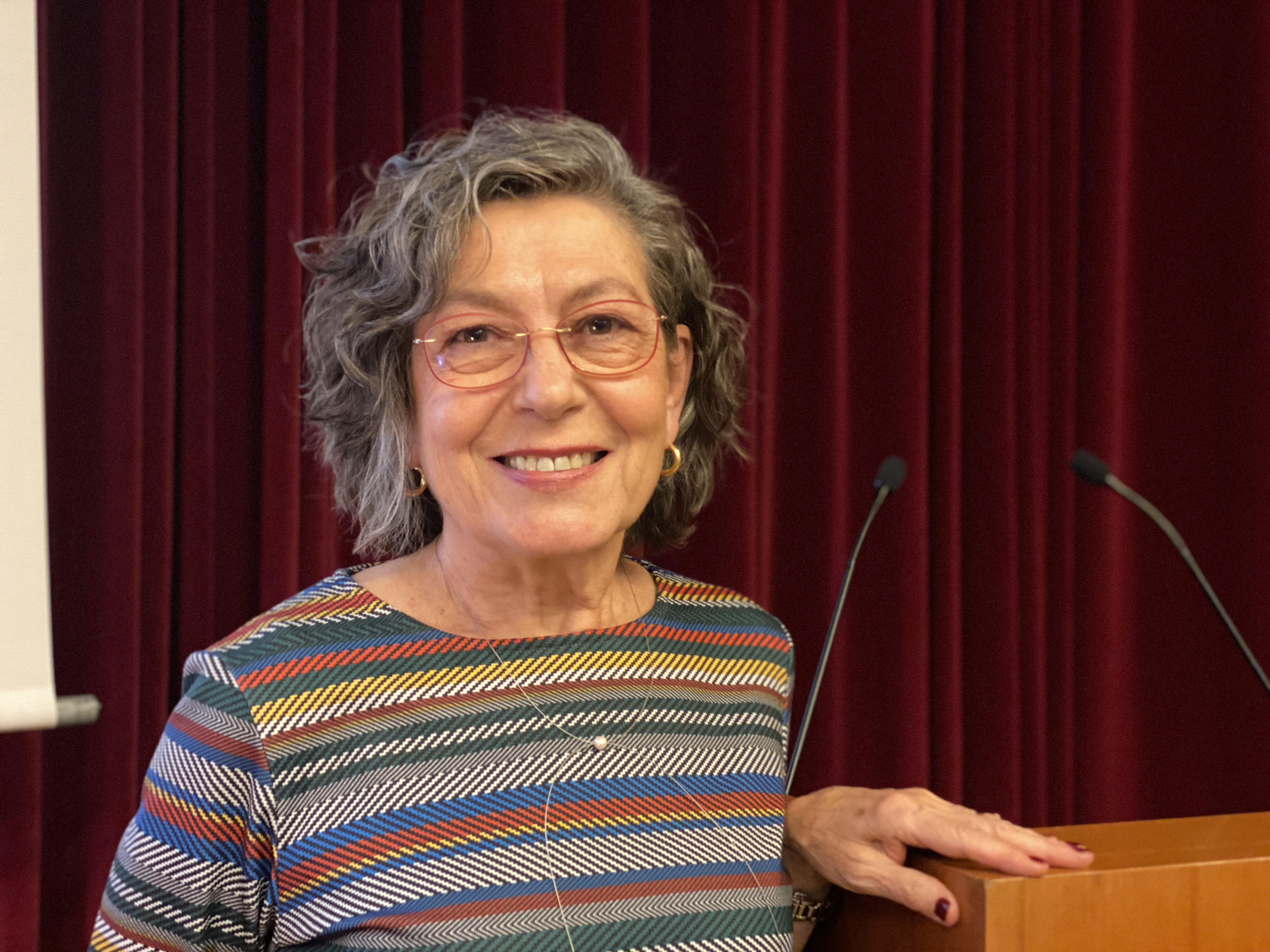 portrait